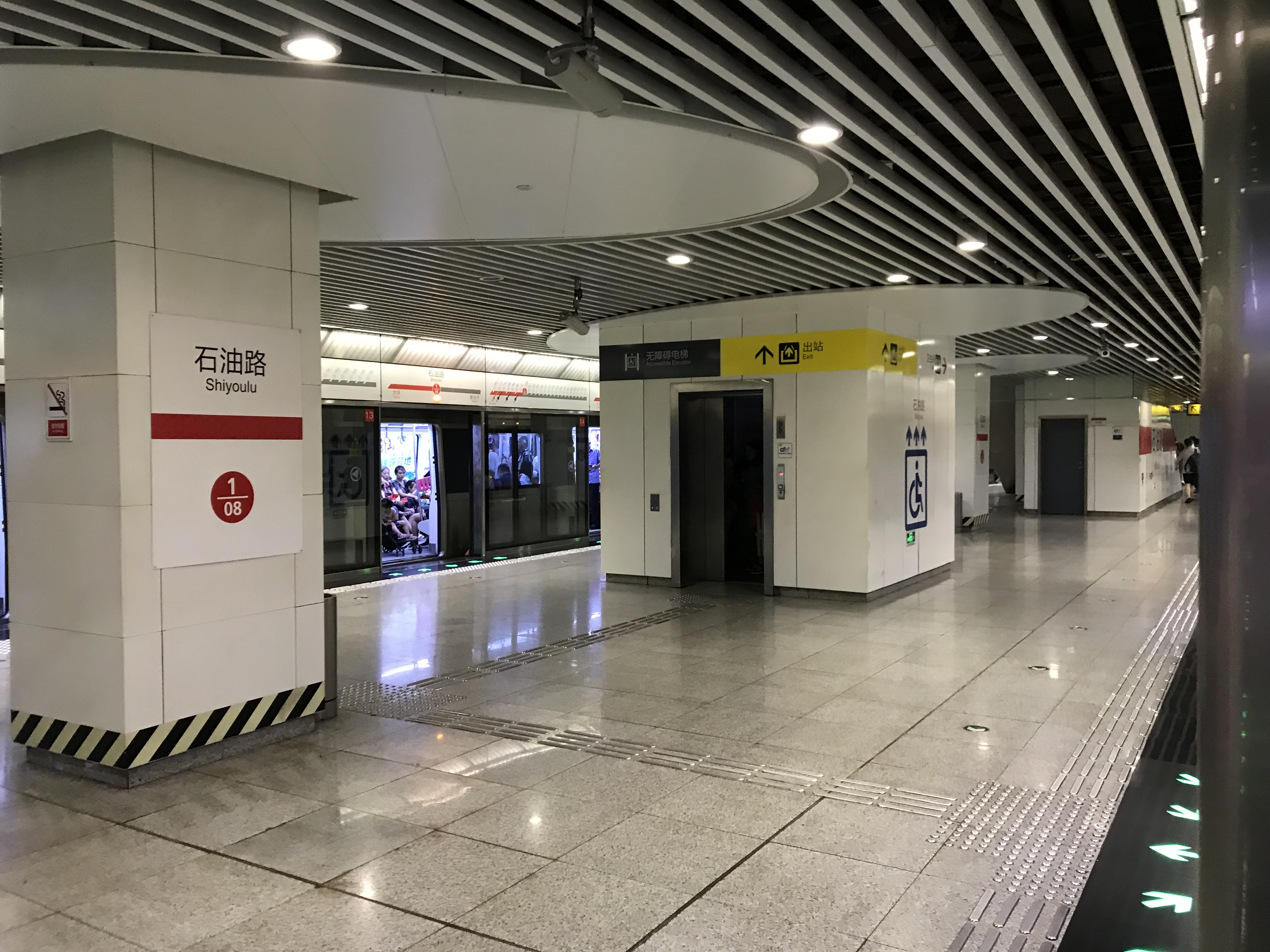 201908 Shiyoulu Station Platform